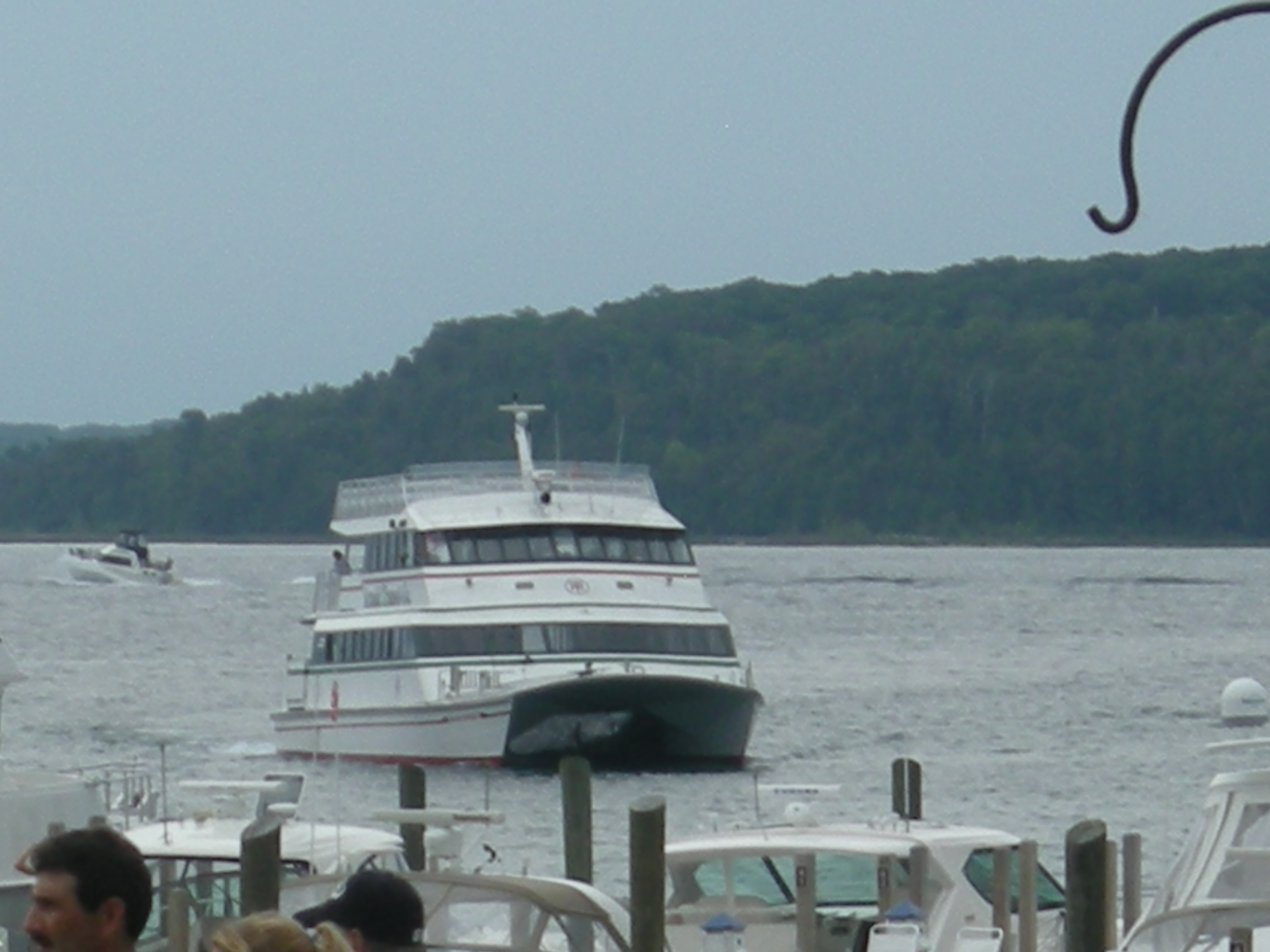 An Arnold Line ferry arriving at Mackinac Island, Michigan (United States).